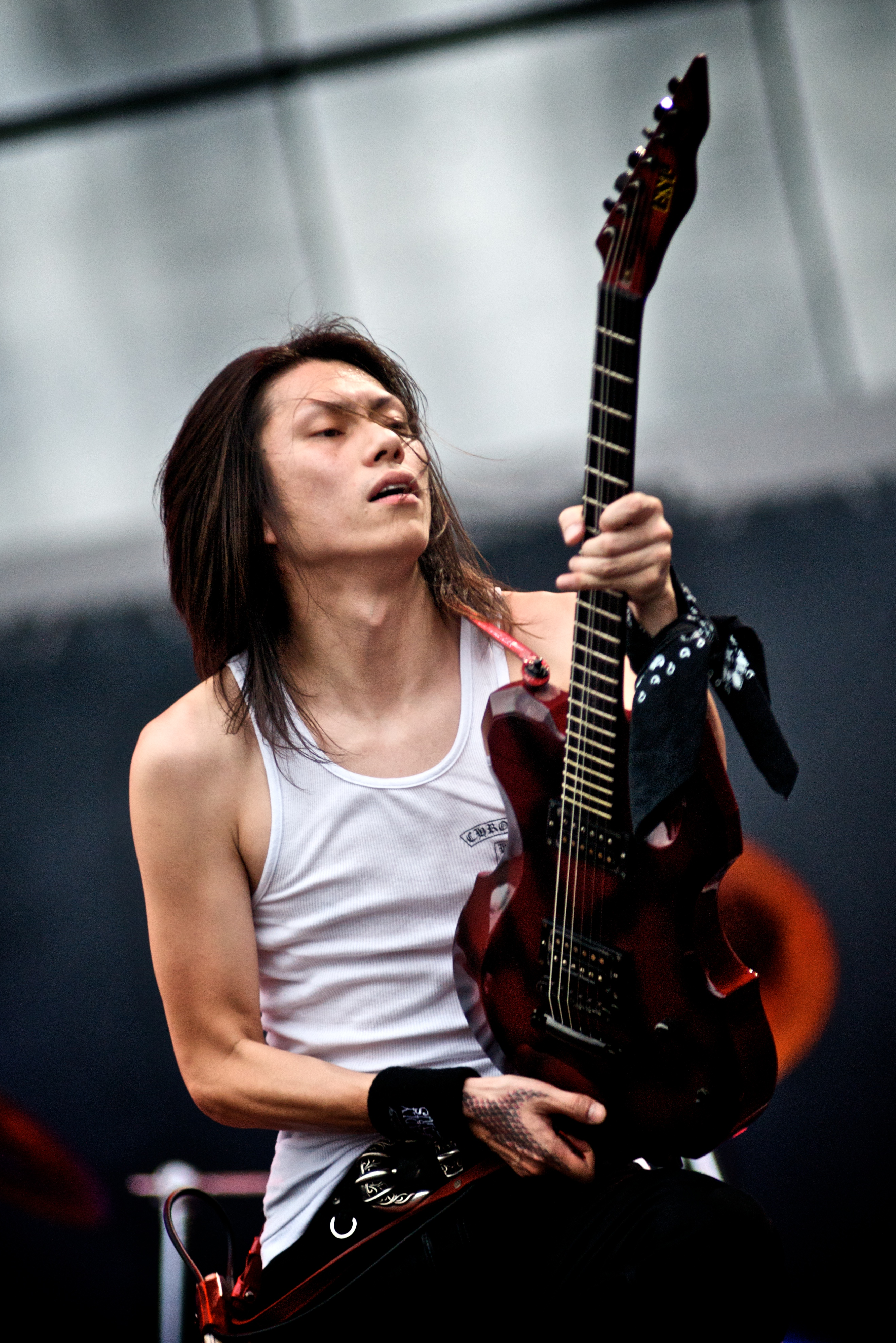 Dir En Grey in Maquinária Festival, occurred in November 8 2009 at São Paulo, Brazil.